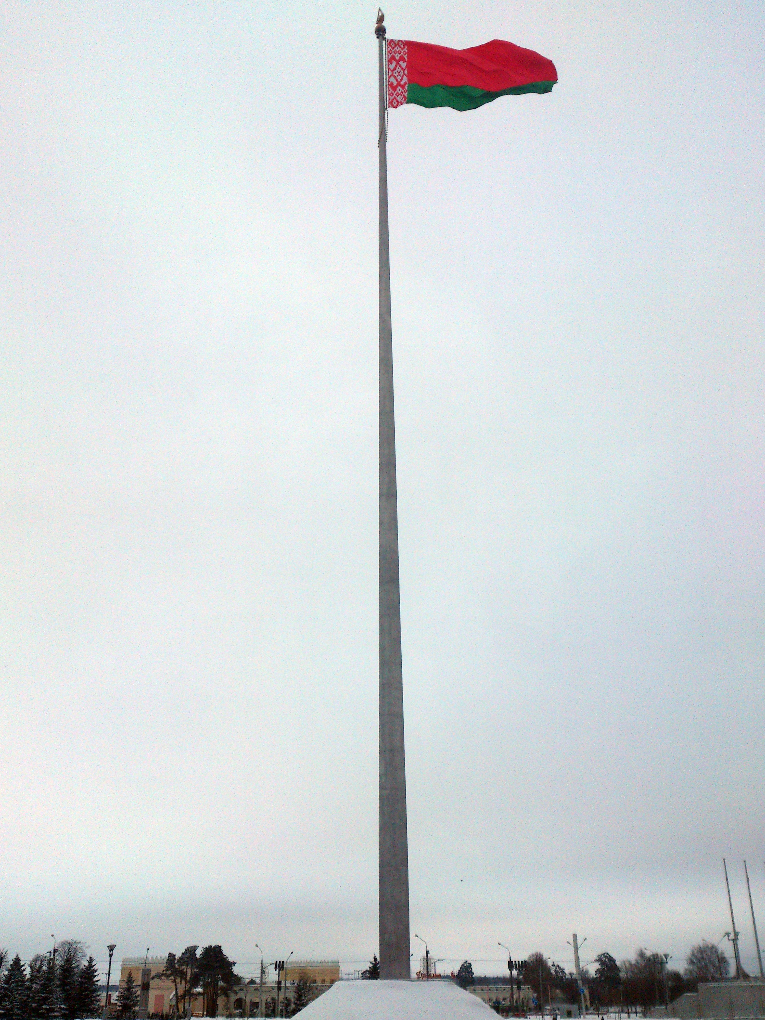 A square of state flag in Minsk, Belarus